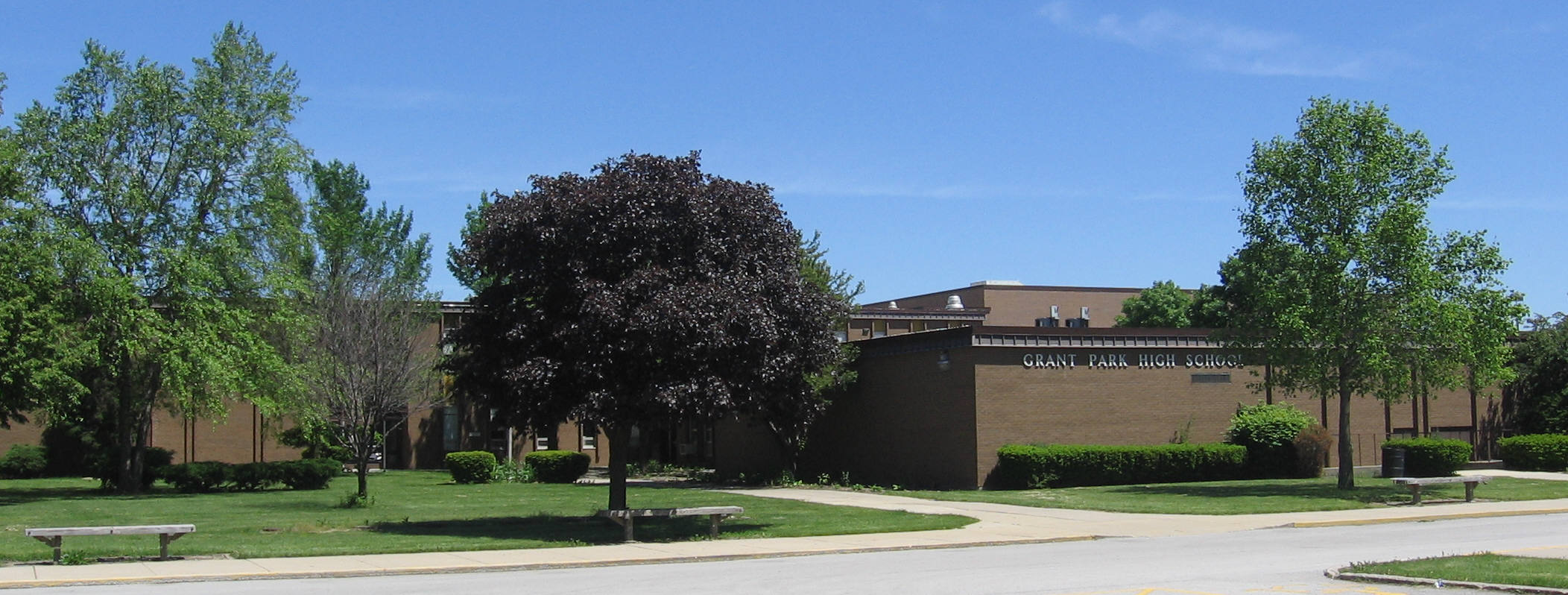 Photo of Grant Park High School, Grant Park, Illinois.